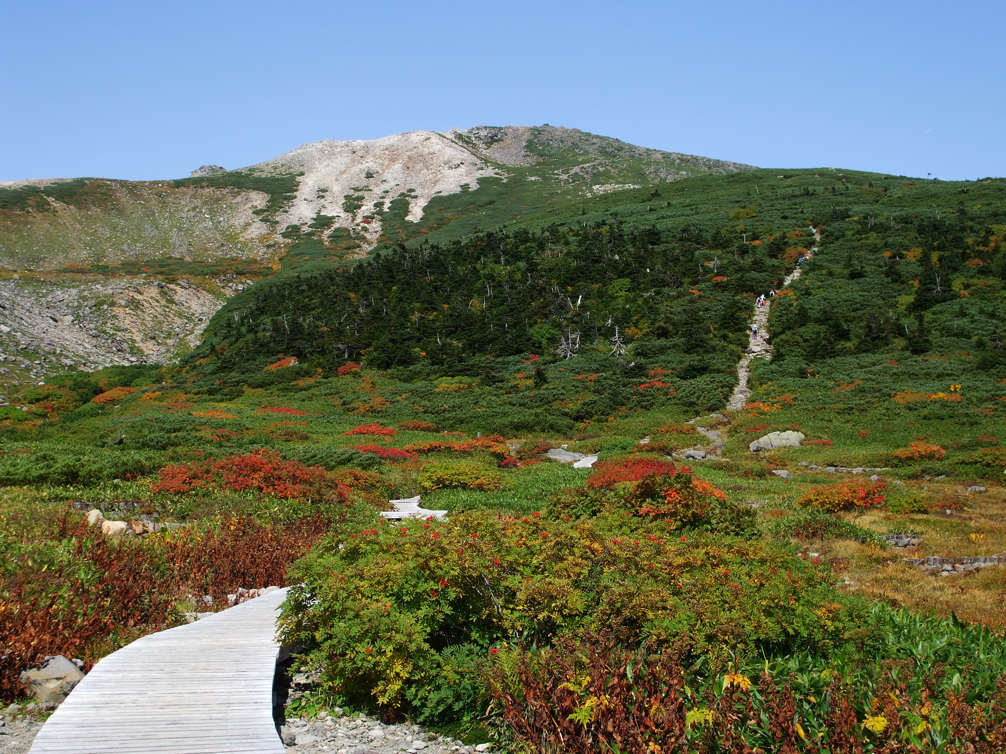 Mount Hakusan from east, of Hakusan Mountains, Honshu, Japan.